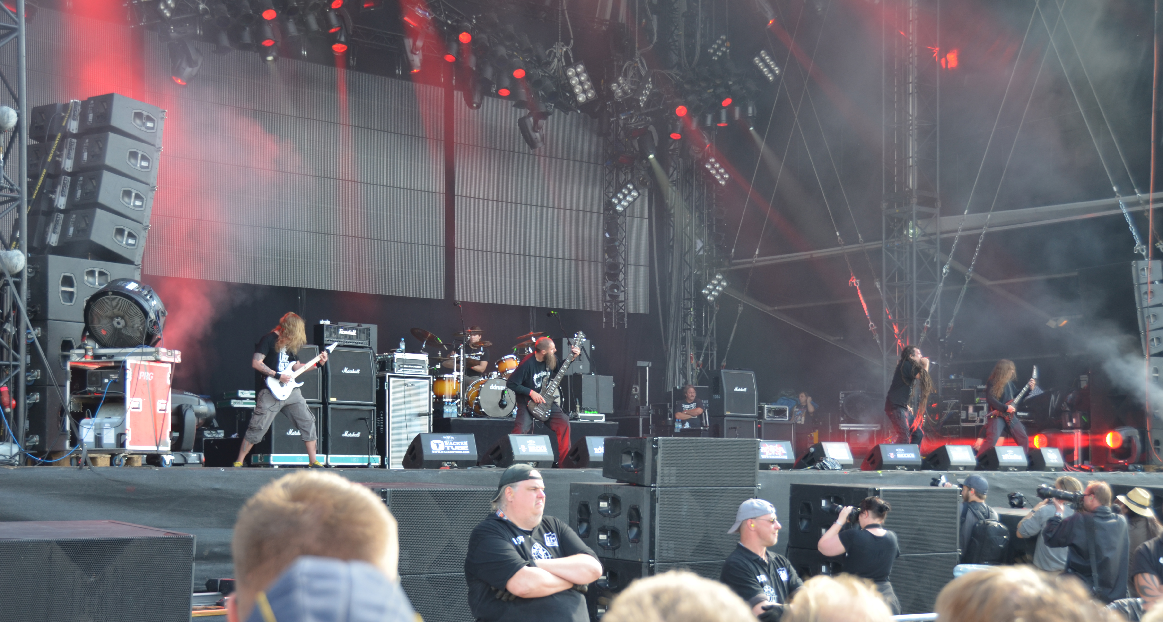 Six Feet Under at Wacken Open Air 2012